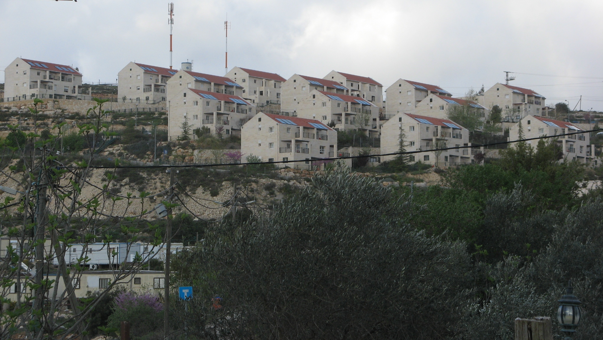 View of Northern Neighborhood in Beit El